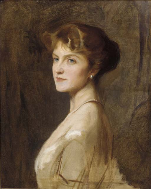 Portrait of Ivy Gordon-Lennox (1887-1982), later Duchess of Portland, by Philip de László, one of three painted in 1915 at the time of her marriage to William Cavendish-Bentinck, Marquess of Titchfield, the son and heir of the 6th Duke of Portland